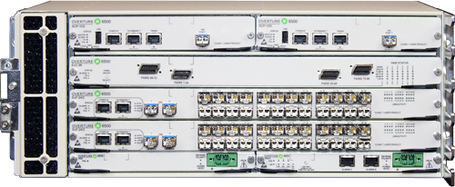 Product photo of the Overture 6500 Service Delivery Platform, used with express permission of Overture Networks. Please